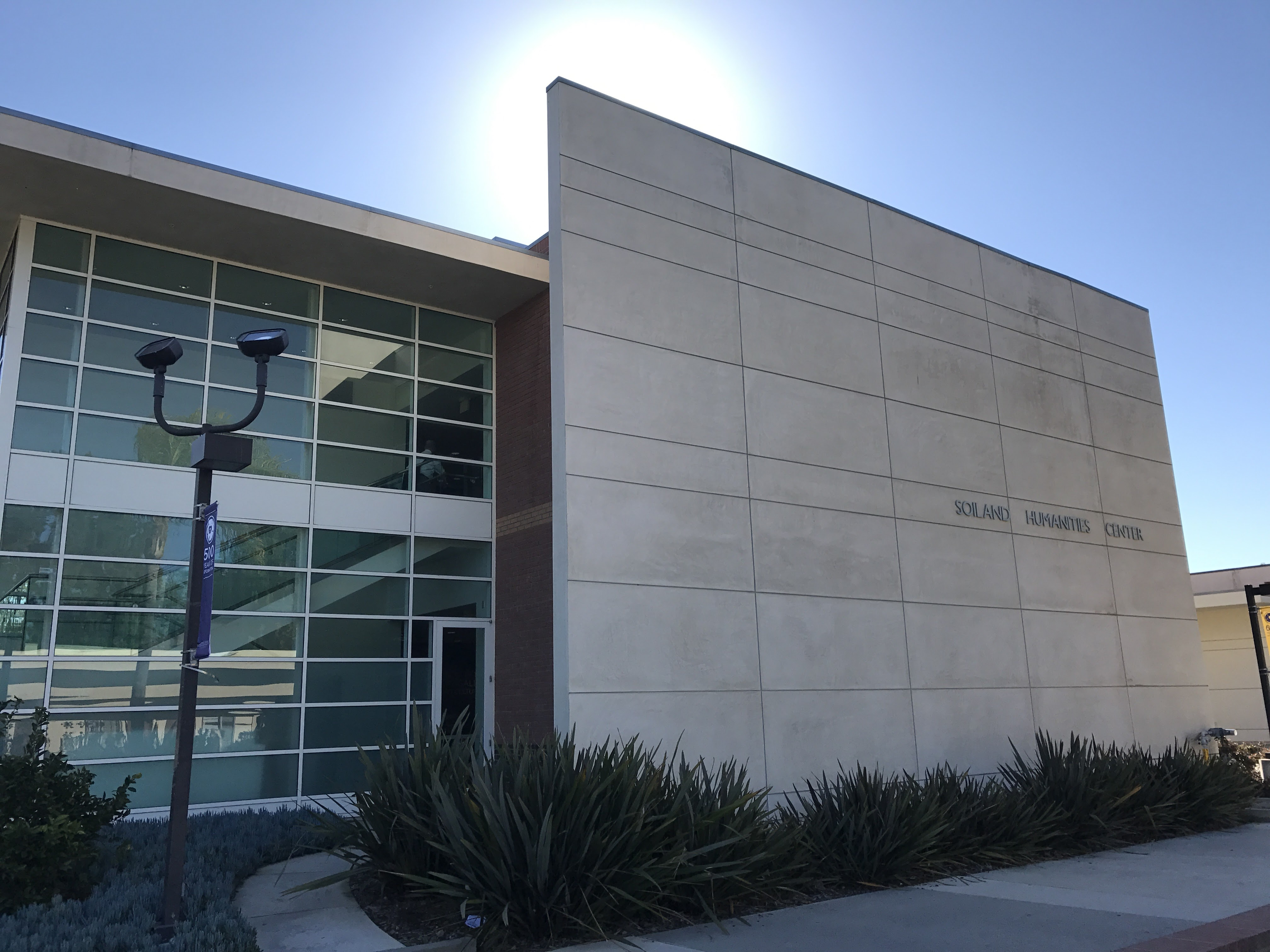 CLU Soland Humanties Center